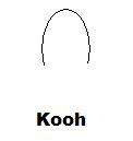 This image derives from possible Serer pictography. It was used by the Serer-Saafi and the Serer-Sine people among other branches of the Serer ethnic group.The name of this symbol is "Kooh", which symbolizes the Supreme Deity in the Serer-Noon language (or "Noon", the Serer Noon people), also called Kokh-Kox. The Serer Sine call the Supreme Deity "Rog Sene". Both the Noon and the Serer-Sine ("Seex") are ethnically Serers. The former speak one of the Cangin languages whilst the later speaks the Serer-Sine language.